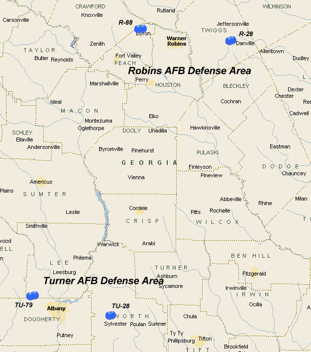 Georgia Nike missile sites